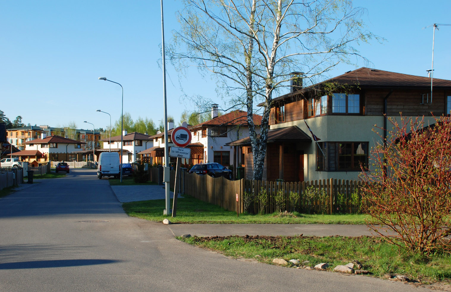 Street in Ozolnieki village, Ozolnieki municipality, Latvia